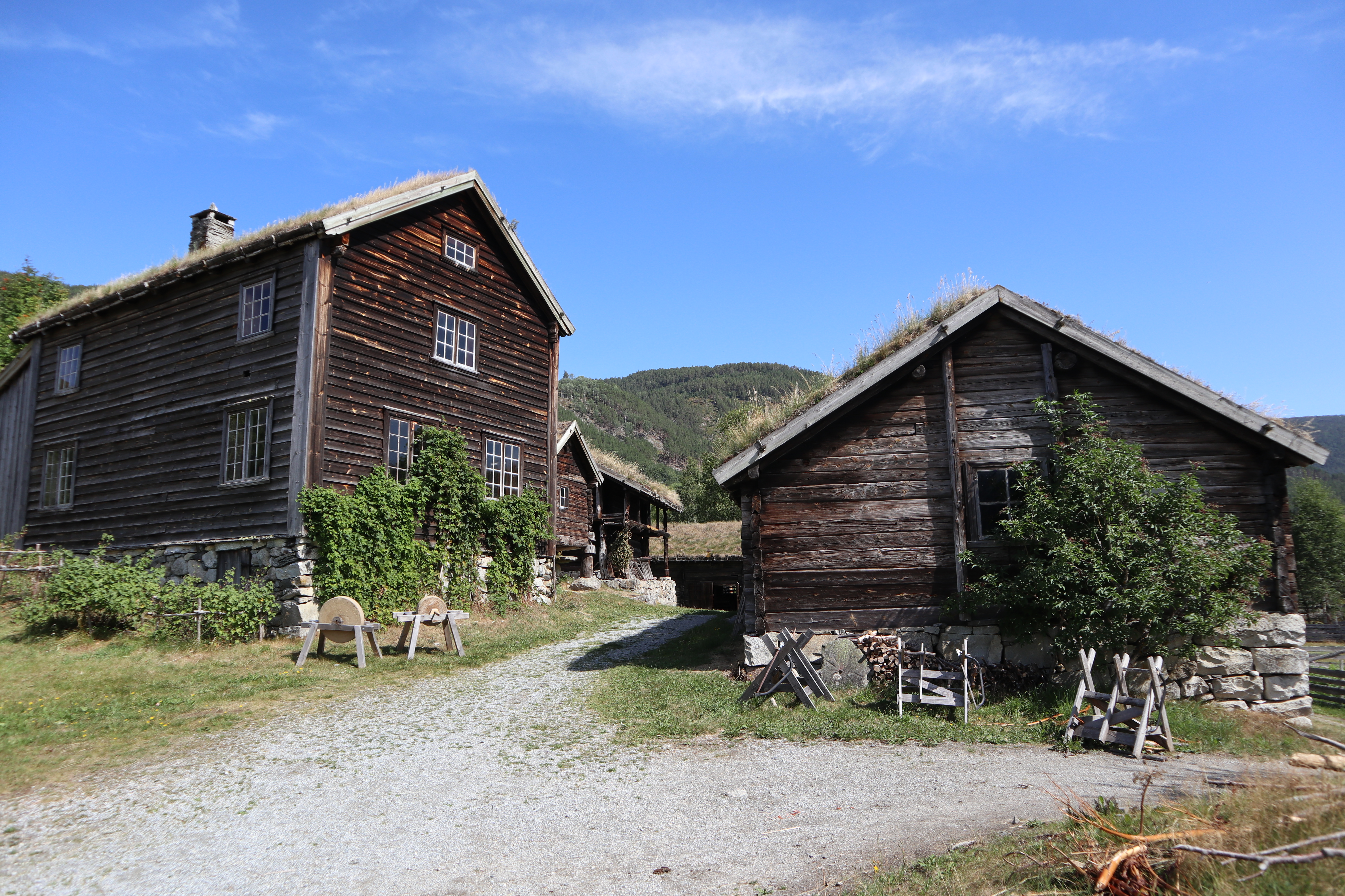 In the open air museum Sogn Folkemuseum